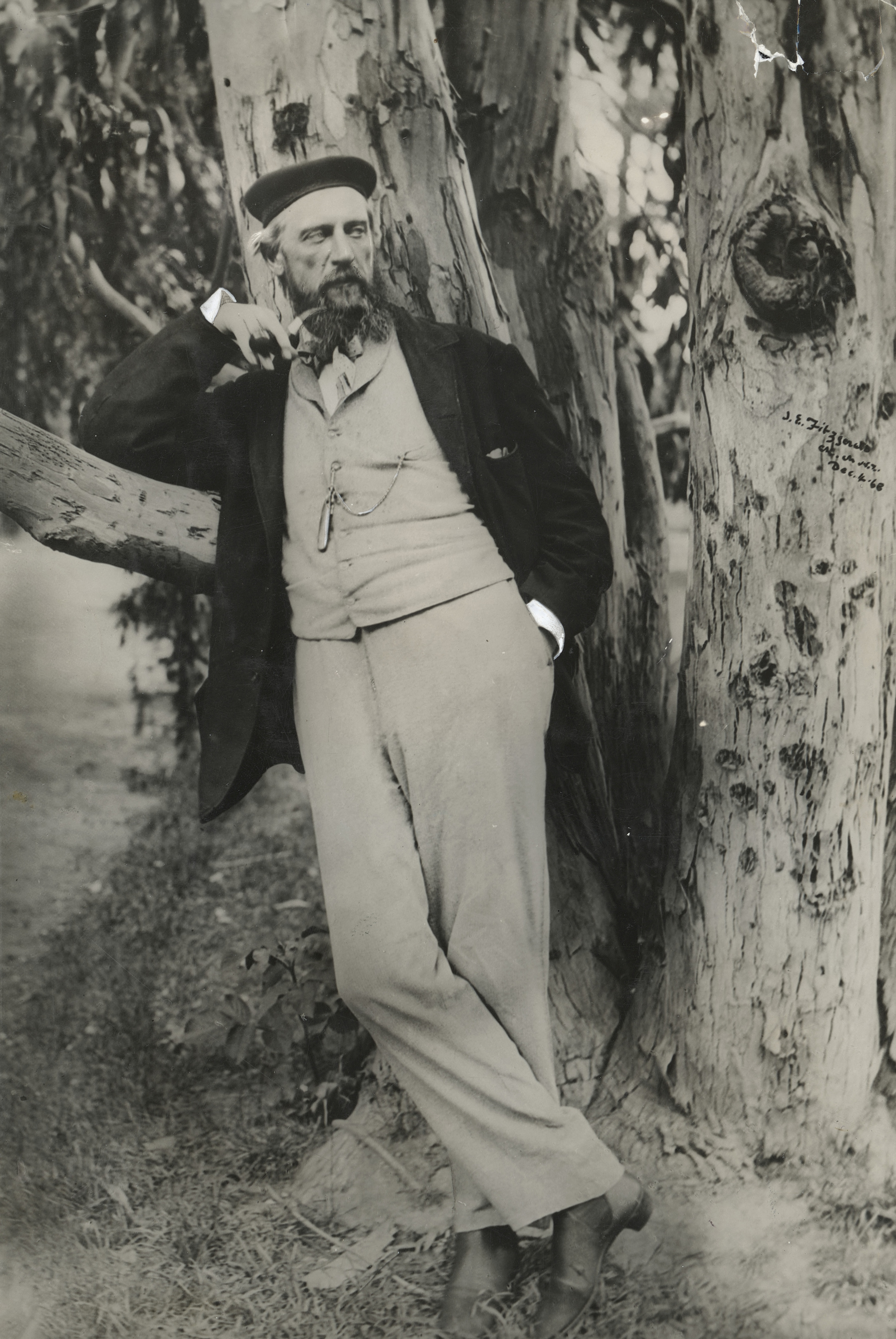 Standing portrait, of James Edward Fitzgerld leaning against a tree. He wears a suit and a beret and holds a tobacco pipe. Photograph taken in Christchurch on 4 December 1868, by Dr Albert Charles Barker. Making New Zealand caption reads: "James Edward Fitzgerald, who was associated with the colonisation of Canterbury. As editor of the 'Lyttelton Times' and later of 'The Press', and superintendent of Canterbury, Fitzgerald did important work for the young province. His later career was marked by diverse activities. In this photograph Fitzgerald is wearing a fashionable smoking cap and jacket. His well cut suit of a light material, lapelled waistcoat, and elastic-sided boots show the characteristic dress of a gentleman of the period."